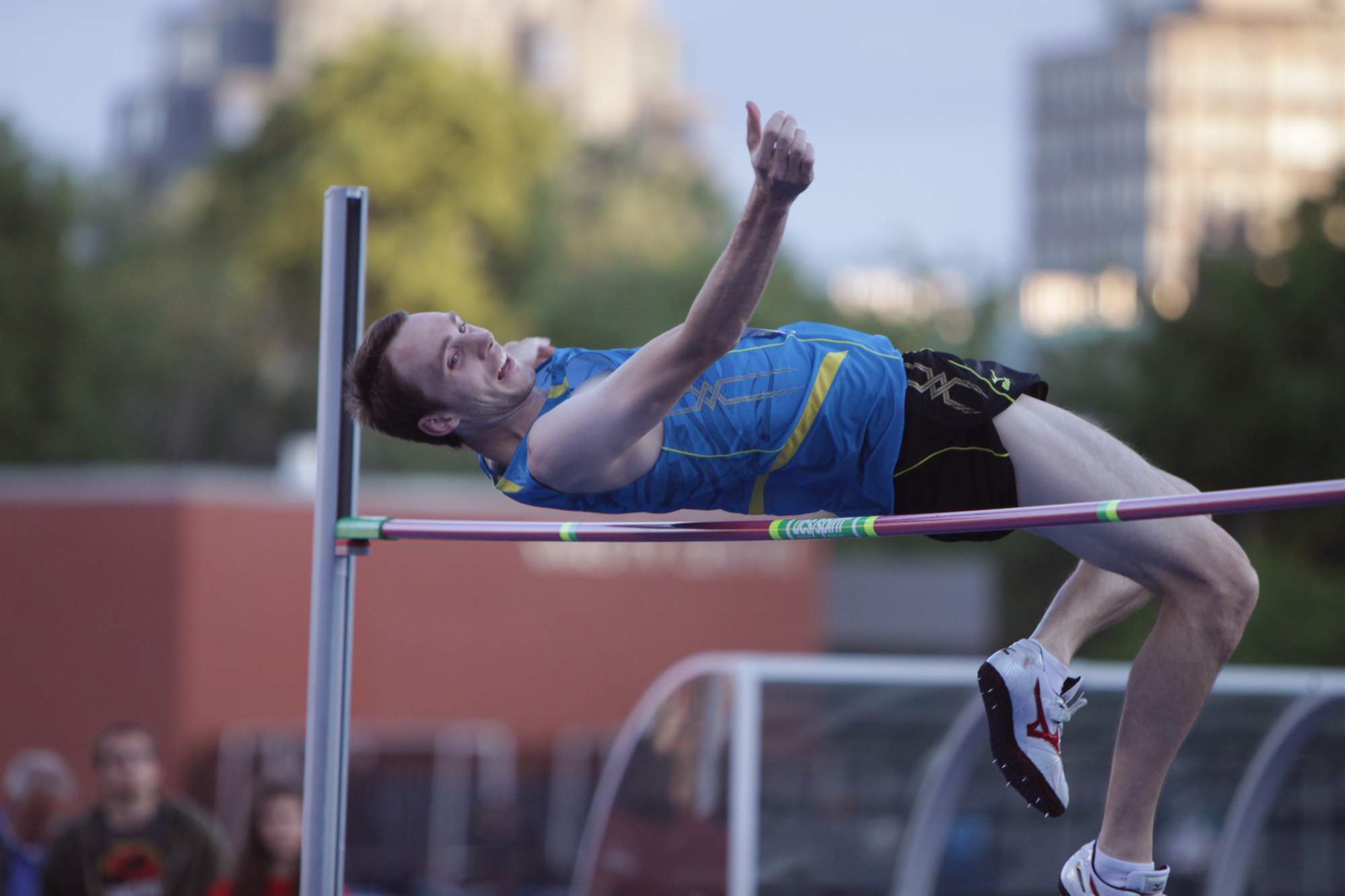 High jumper Mike Mason clears the bar at the 2013 International Track & Field Games in Toronto, Ontario.